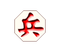 One of the janggi pieces.